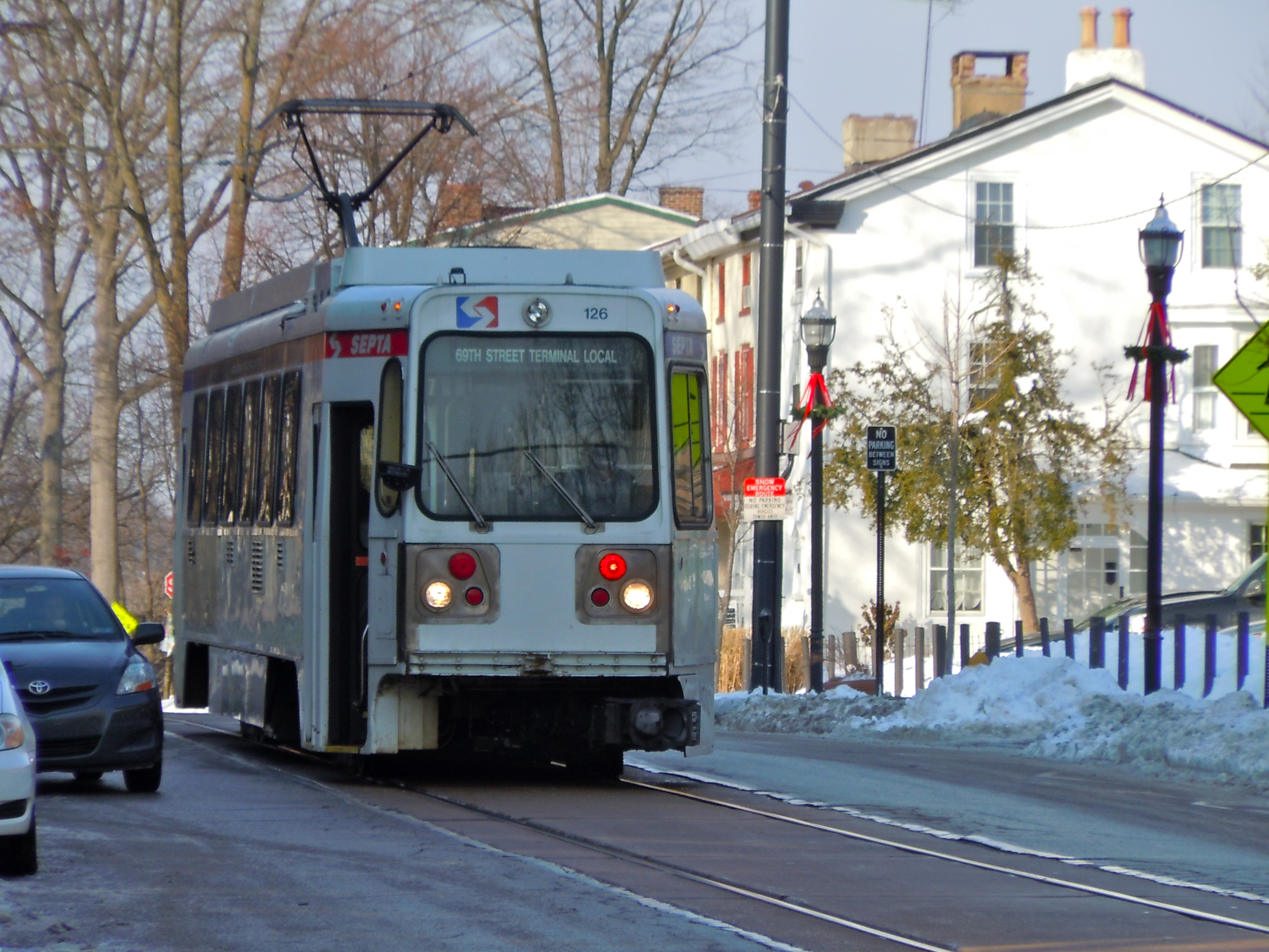 SEPTA trolley 101 at the end of the line in Media, Pennsylvania (driver has just changed ends) Middle of State Street, known somewhat ostentatiously as "Media–Orange Street (SEPTA Route 101 station)" is the terminus.